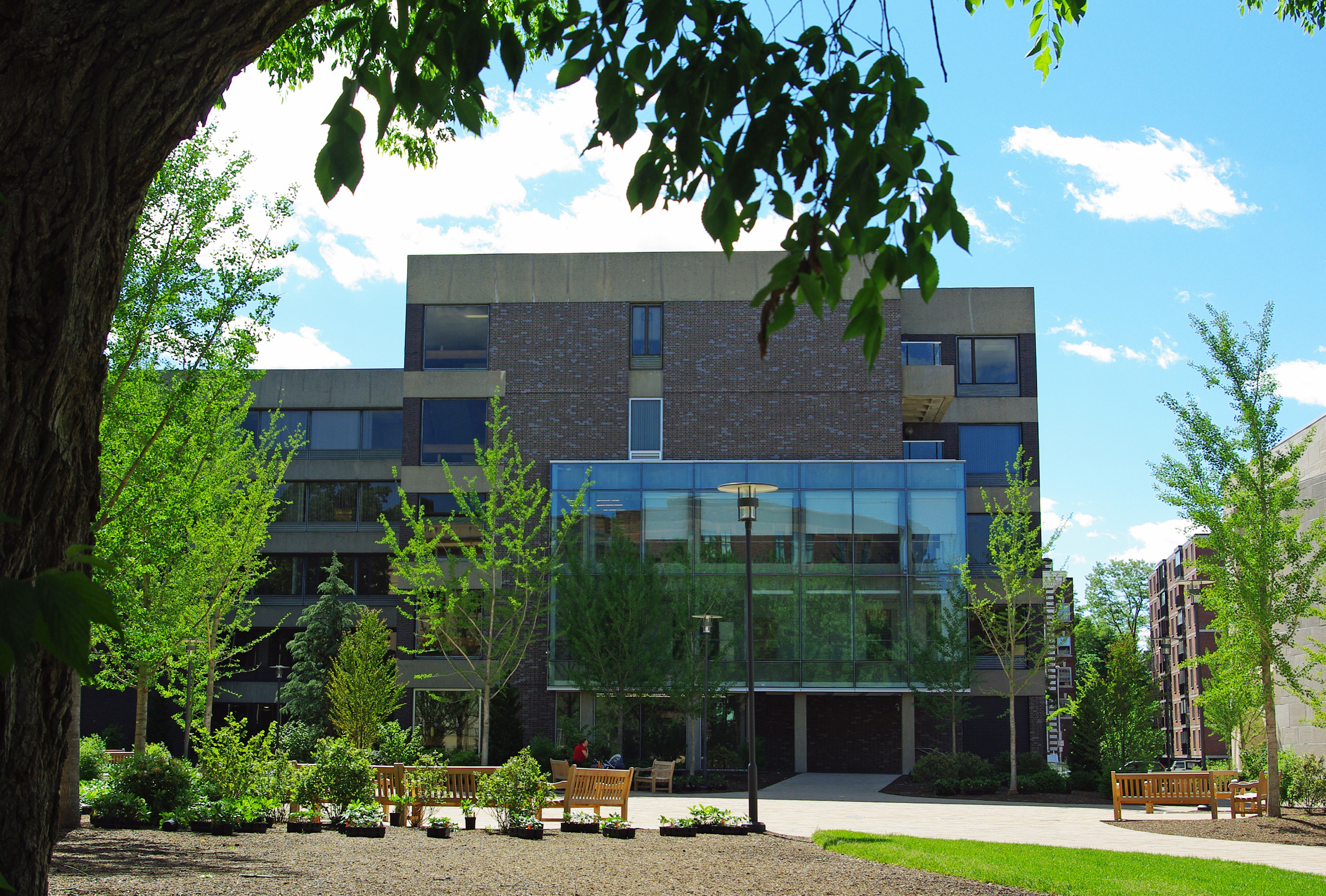 Pound Hall